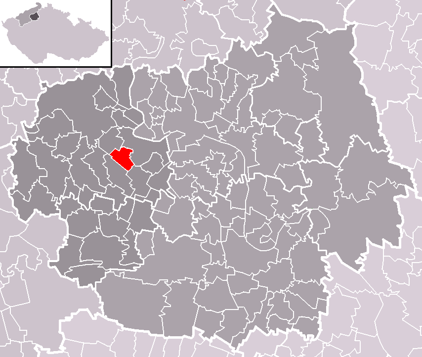 Location of Sulejovice municipality within Litoměřice District and administrative area of Lovosice as a Municipality with Extended Competence.